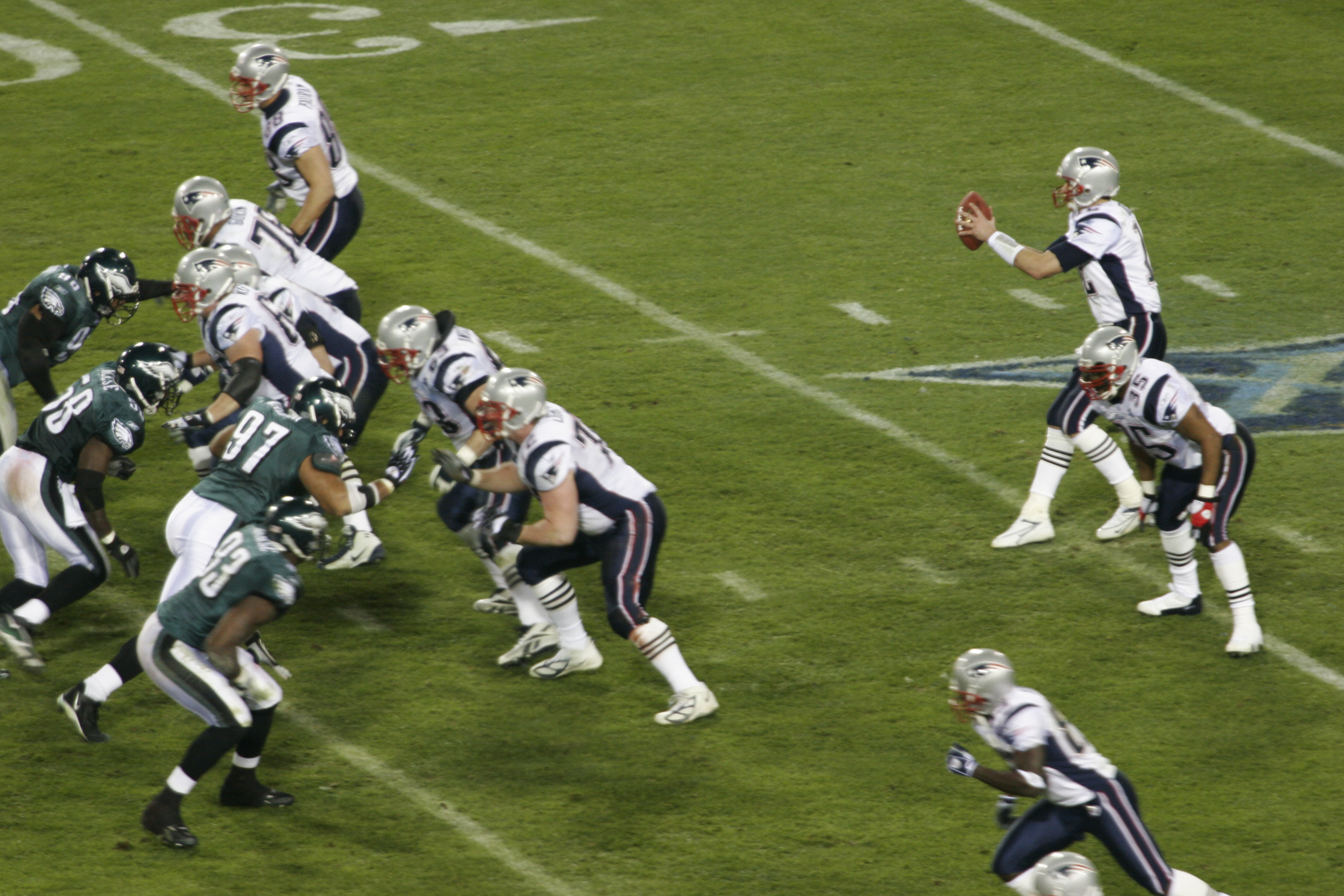 Tom Brady takes the snap during Super Bowl XXXIX. Brady threw for 219 yards to give the Patriots their third Super Bowl victory in four years.